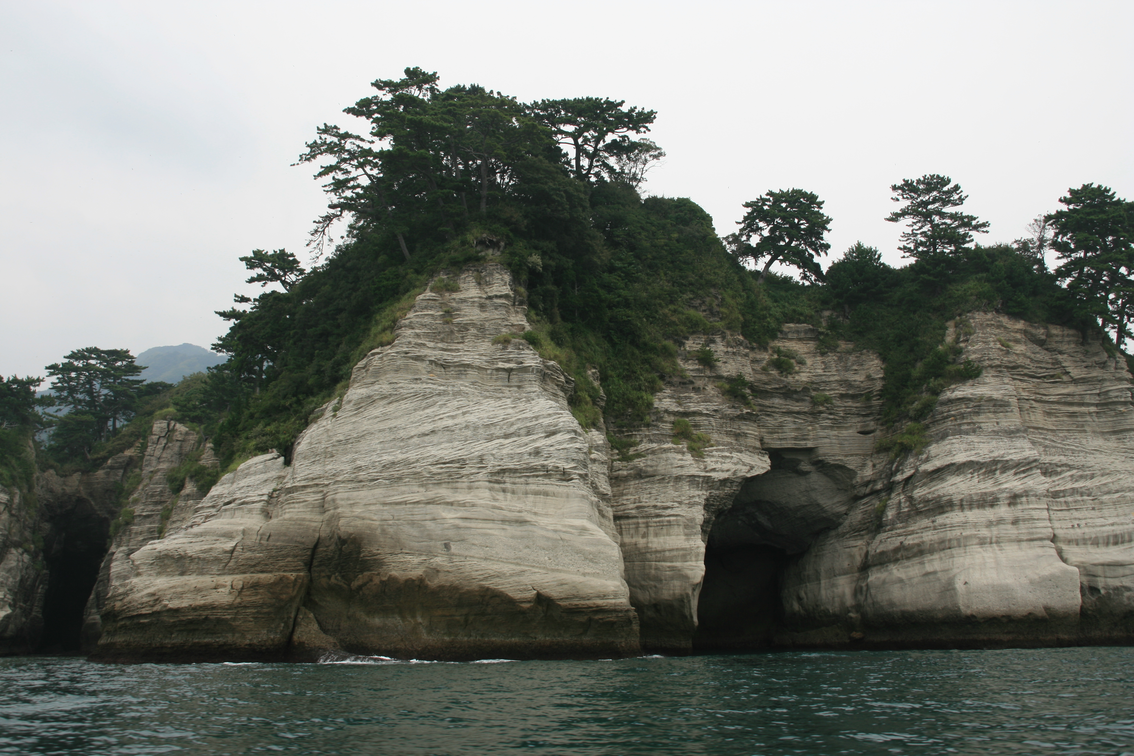 Entrance of Tensodo sea cave (right)